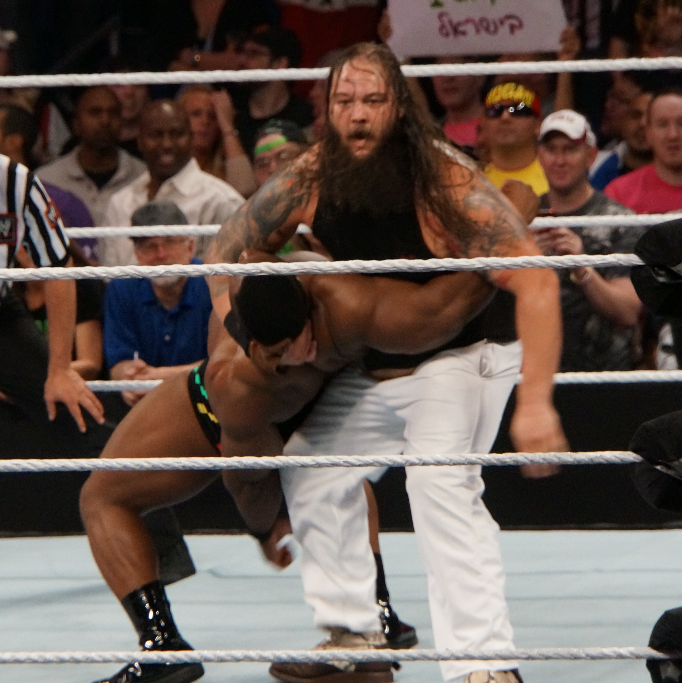 Bray Wyatt finisher to Big E